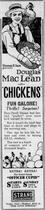 Newspaper advertisement for the American comedy drama film Chickens (1921) with Douglas MacLean, on page 9 of the May 7, 1921 Duluth Herald.